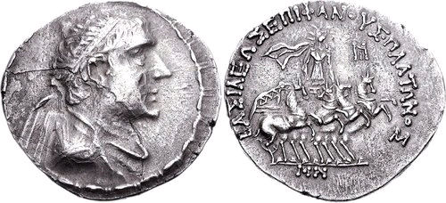 Plato Tetradrachm with MN date